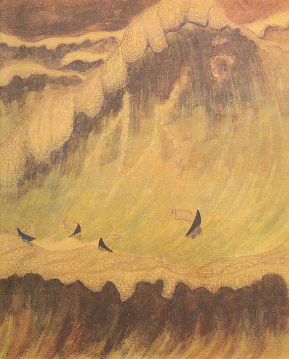 Painting Finale (part four) in planned four-painting cycle Jūros sonata (Sonata of the Sea). Only three paintings were completed.